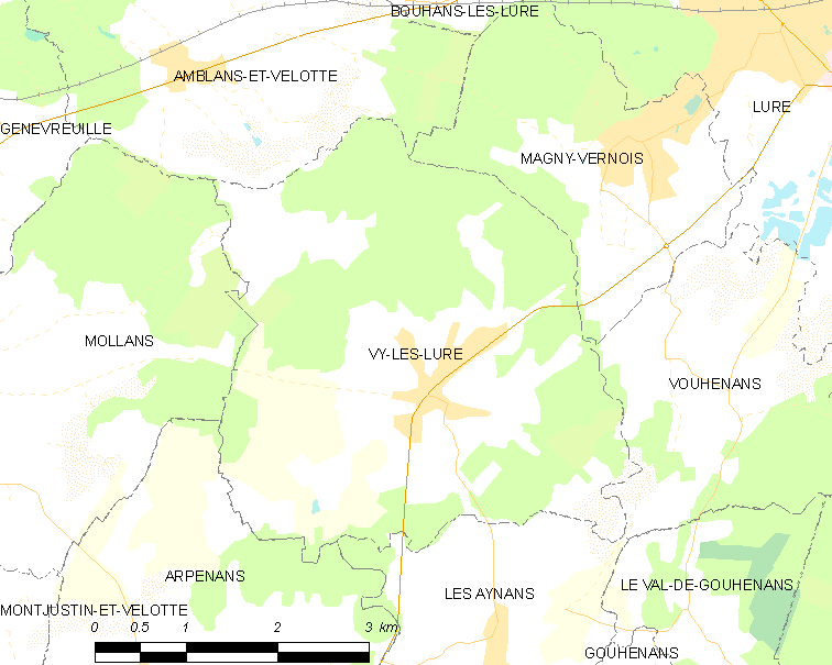 Map of French municipality